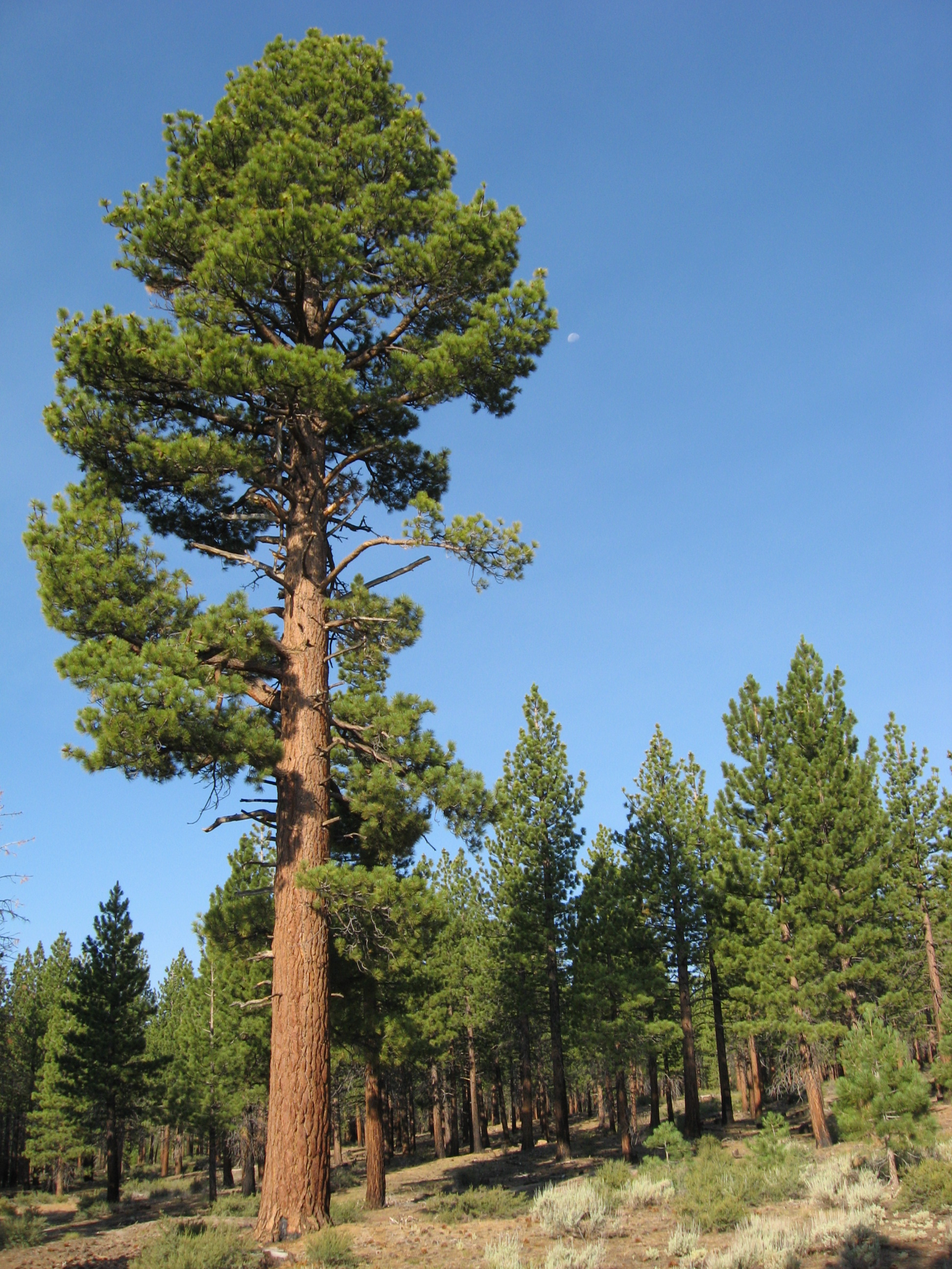 A large mature east side Jeffrey Pine Pinus jeffreyi growing on volcanic table lands south of Mono Lake, Ca. Photo taken approximately one mile east north east of Deadman's Pass, off of US HWY 395. The stand is composed of pure Jeffrey Pine with different age classes found through out. The large tree is approximately 27-30m tall, and 90cm in diameter at breast height. The waning gibbous moon is visible to the right of the tall pine. Volcanic Table Lands, eastern Sierra Nevada, California.